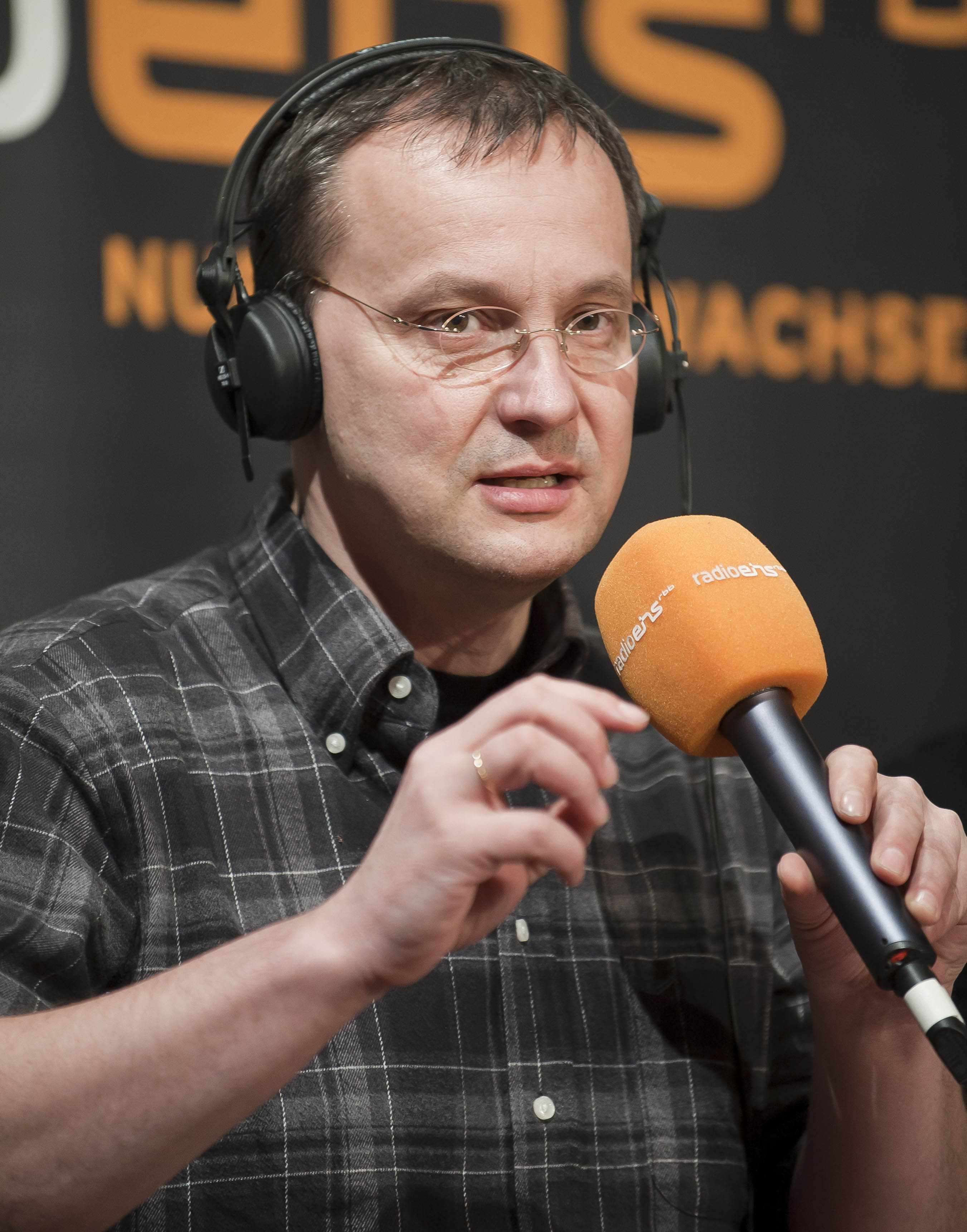 German film critic and news presenter Knut Elstermann at the Berlin Film Festival 2009